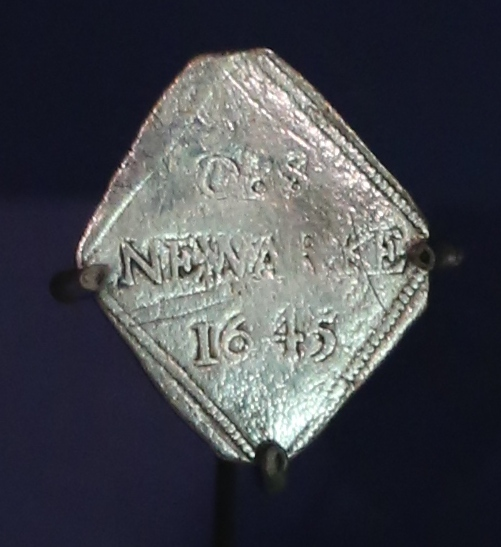 Photo of a makeshift royalist shilling (siege piece) made from silver plate during the siege of Newark-on-Trent